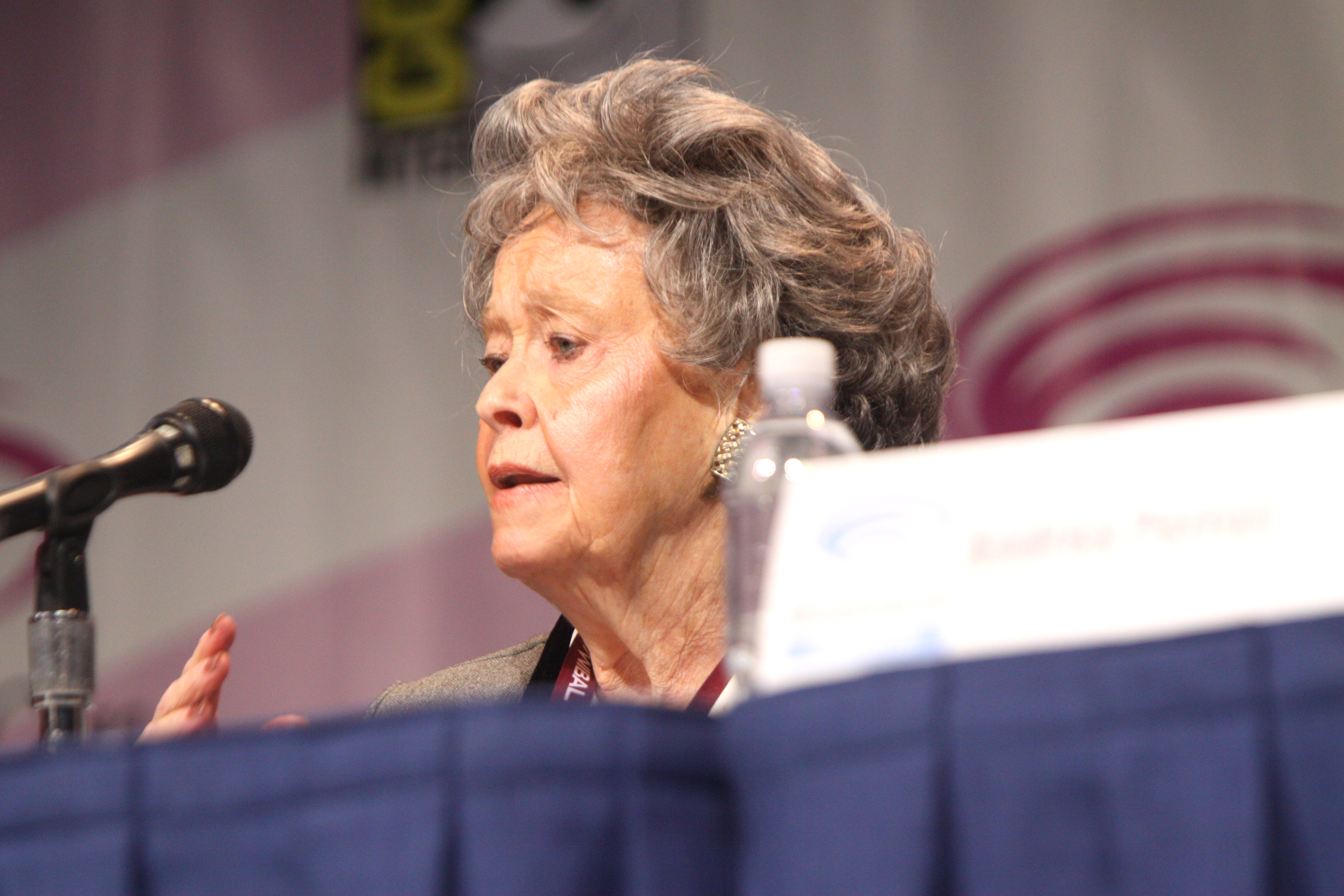 Lorraine Warren speaking at the 2013 WonderCon at the Anaheim Convention Center in Anaheim, California.